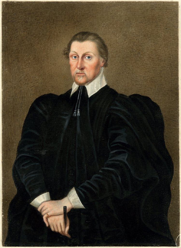 Portrait of Richard Corbet (1582-1635), Bishop of Norwich. Courtesy of the British Museum, London.